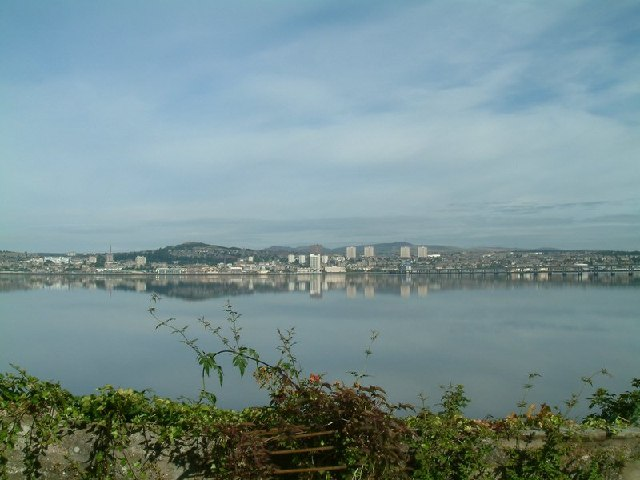 View of Dundee and River Tay. This was a calm morning and the river was caught in a placid mood, from Newport vantage point NO4127